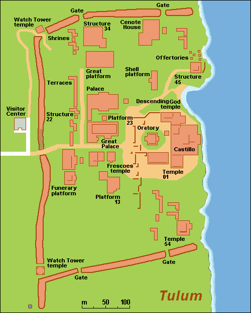 Map (rough) of central Tulum, Mexico, own work composed from various referenses